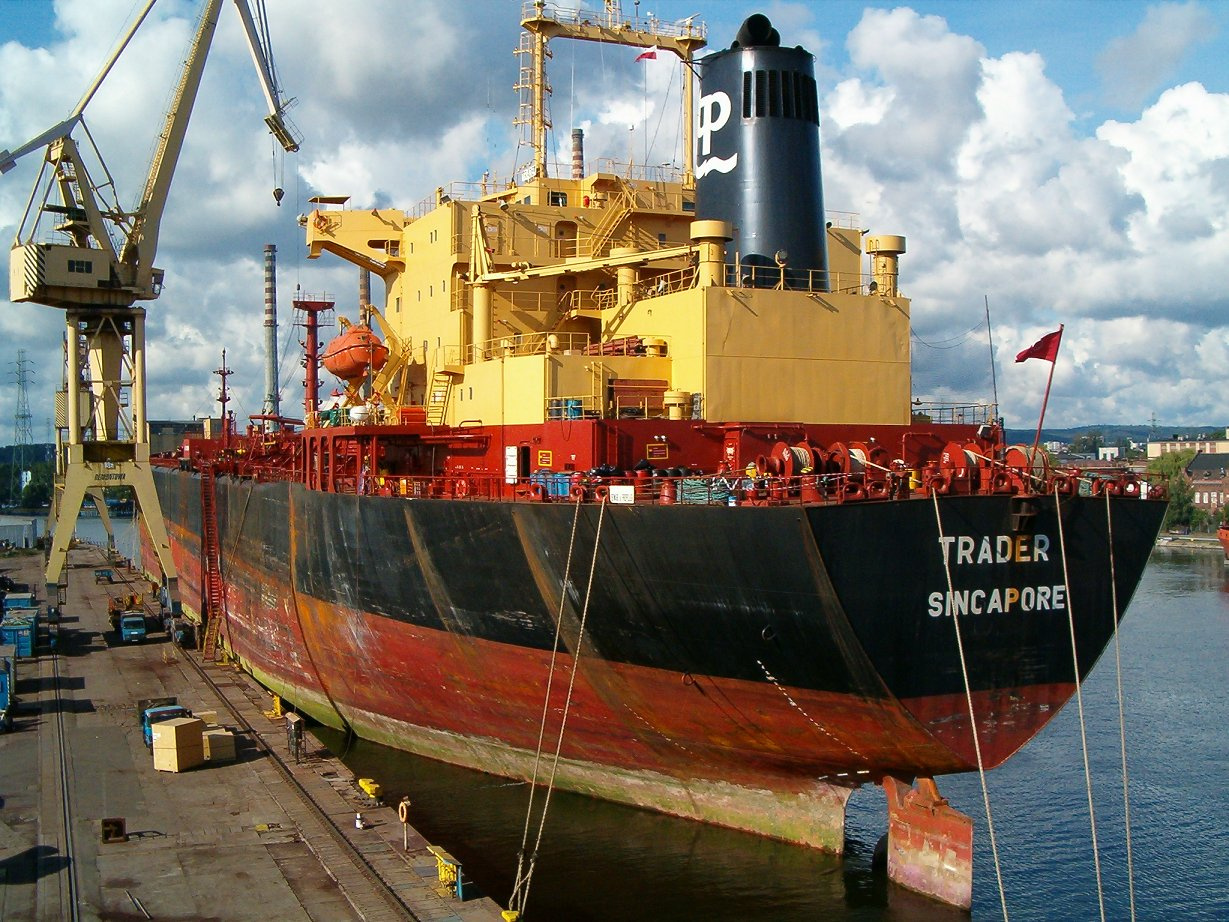 Tanker 'Trader' during repair in Remontowa Shiprepair Yard in Gdansk, Poland.